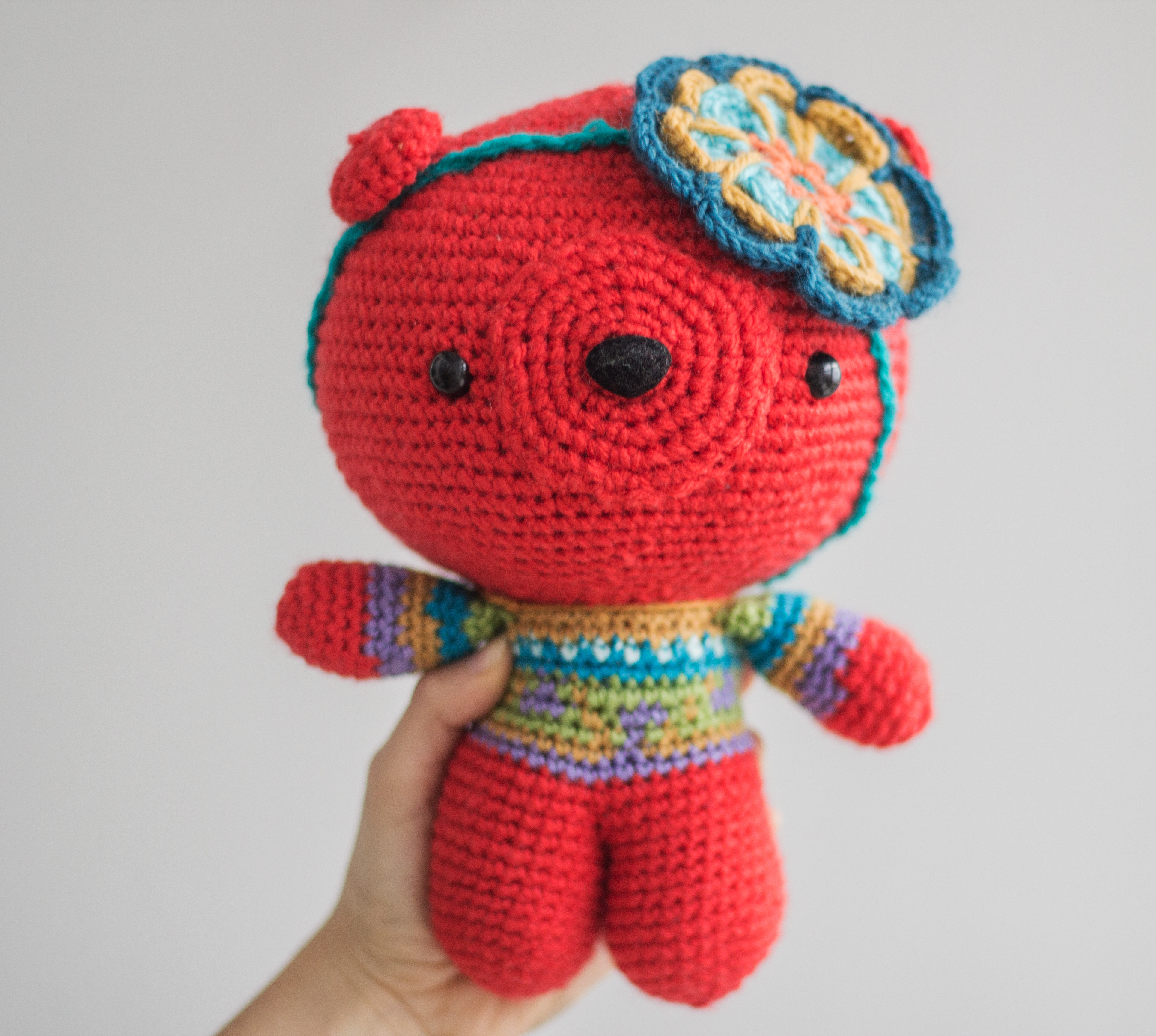 Amigurumi mear. Self made in 2014